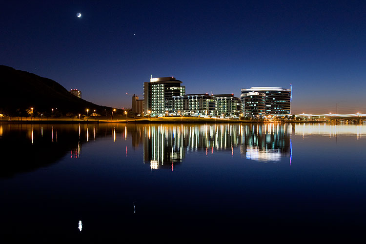 Nighttime Tempe Town Lake.